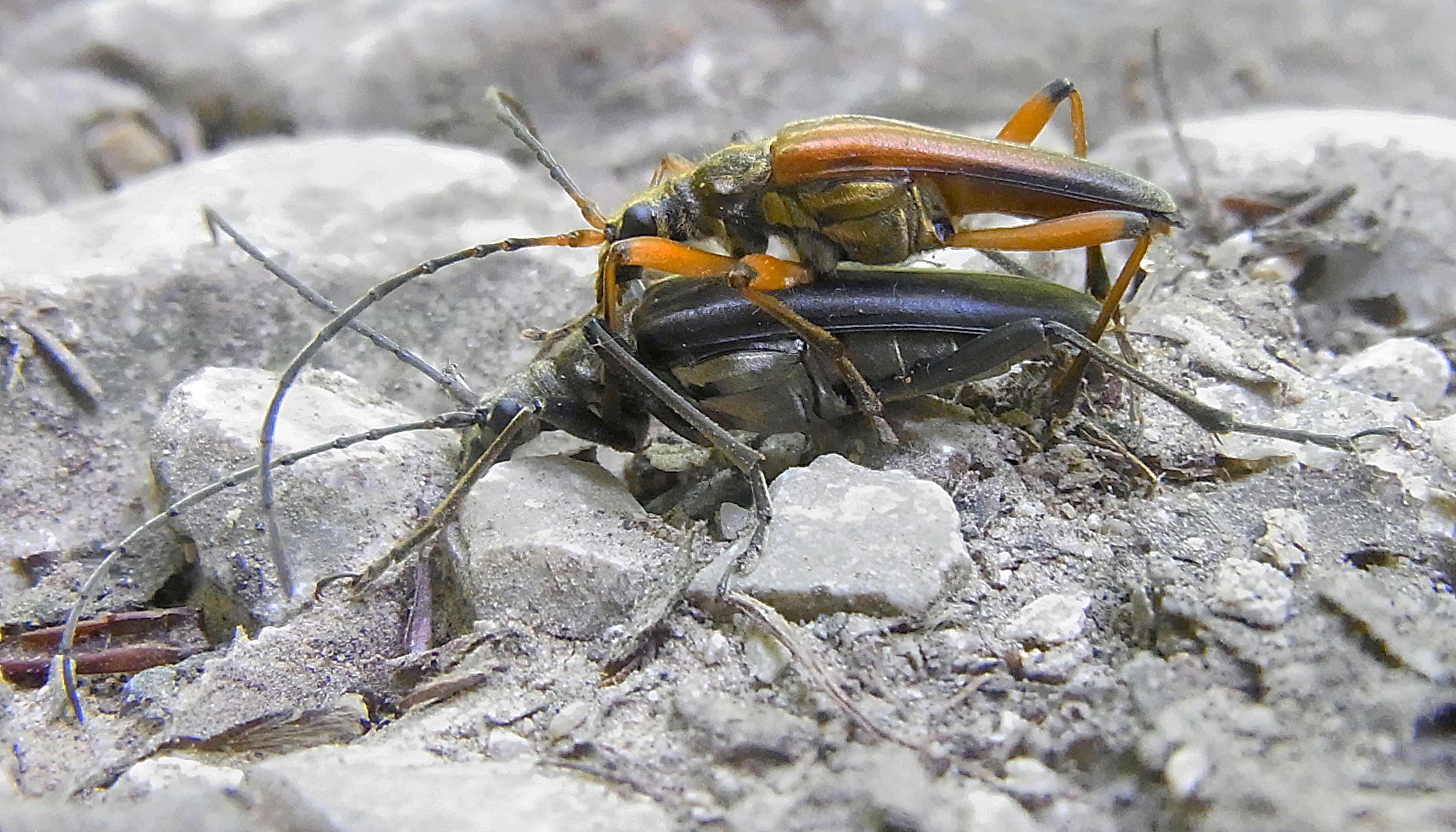 Stenocorus meridianus from Hungary, Bükk-mountains at 2015-07-07